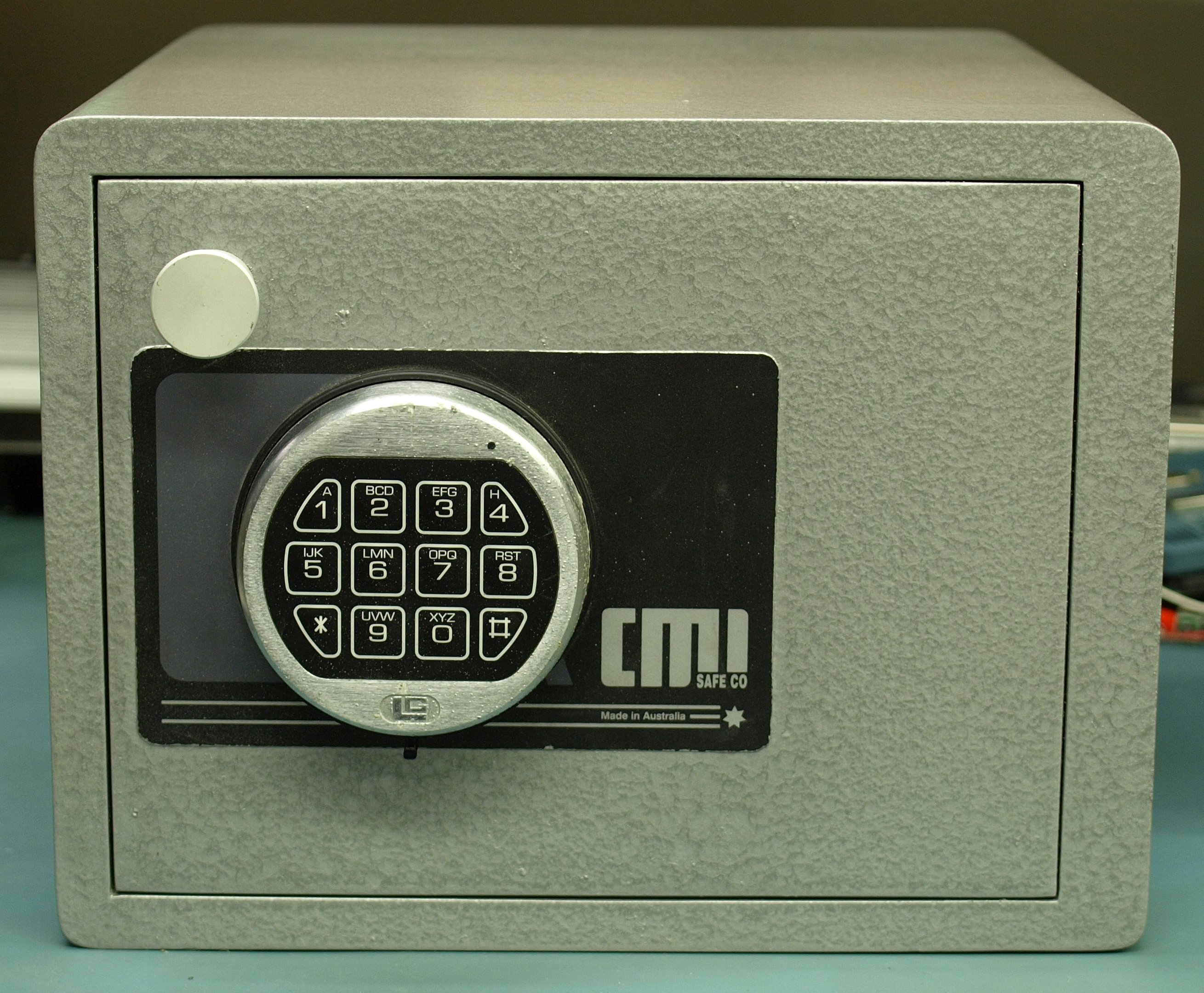 Australian Made CMI H2D Home Safe With La Gard 3750 Digital Electronic Lock. An example of basic home safe that can bolted to a concrete floor